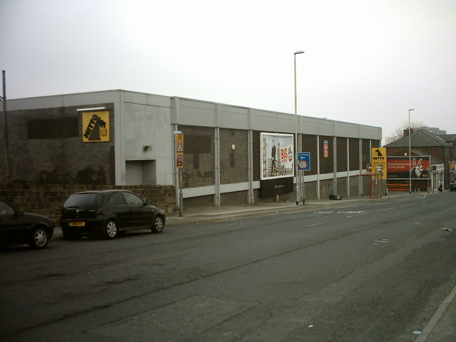 Netto on Oldfield Lane in Wortley, Leeds, West Yorkshire, UK. This was originally built as an ASDA.